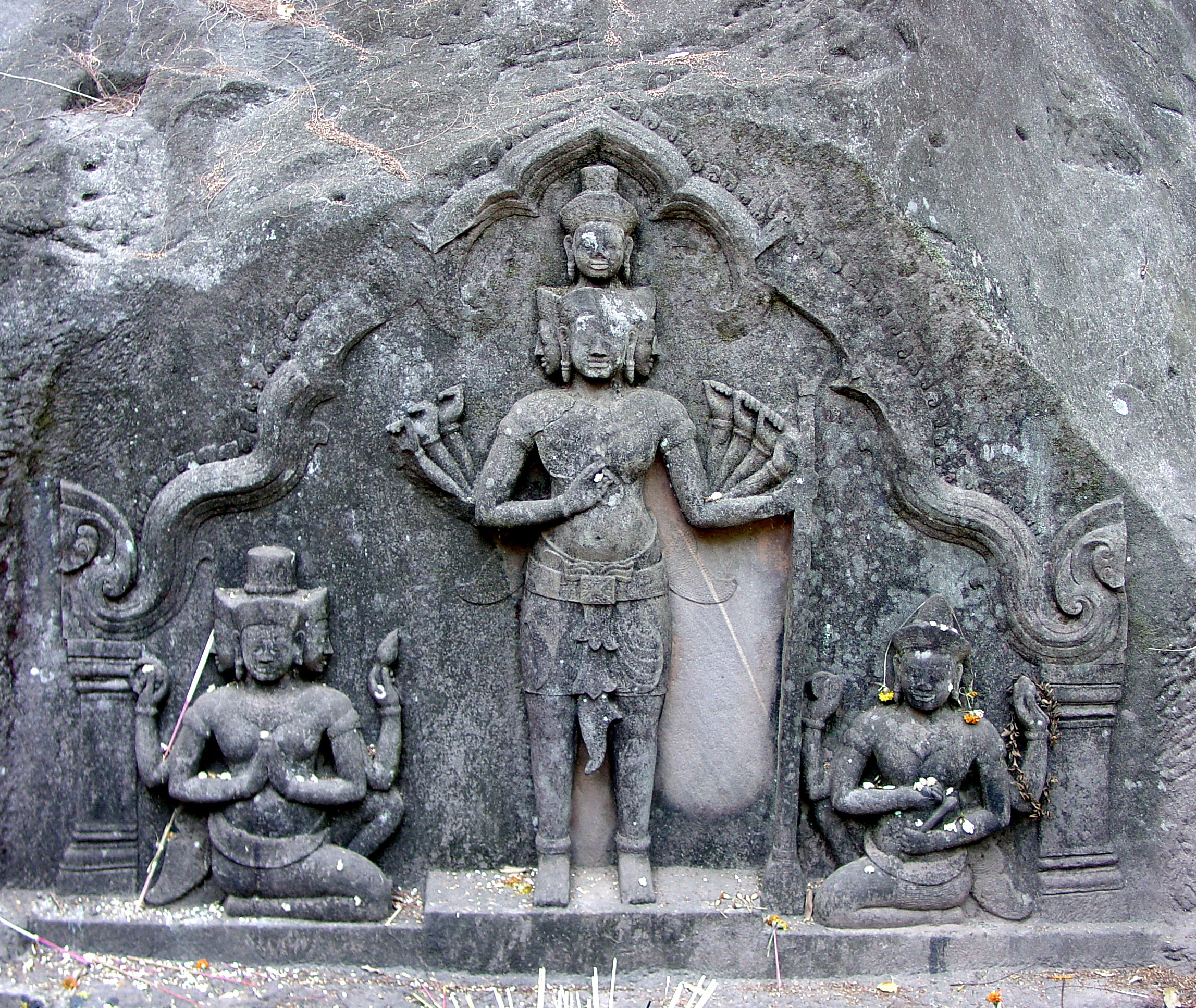 This undated, free-standing relief depicts a cosmic form of Shiva, standing, flanked by kneeling Brahma (photo left) and Vishnu (photo right).